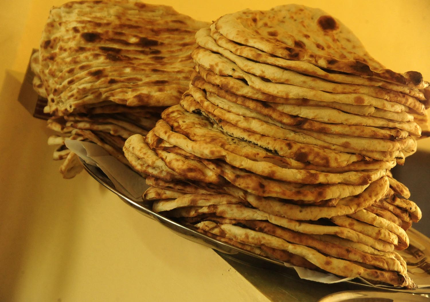 100906-F-3322D-009: Naan bread, often eaten with traditional Afghan meals, is prepared for the Iftar Dinner held at Forward Operating Base Farah in Afghanistan, Sept. 6, 2010. Dignified leaders in Farah Province, Coalition forces and United States Agency for International Development representatives gathered to take part in an Iftar Dinner hosted by The Department of State. The dinner was hosted to keep with Islamic traditions, as a gesture of respect and hospitality to Provincial Government partners. (ISAF photo by U.S. Air Force 1st Lt. Christine A. Darius)